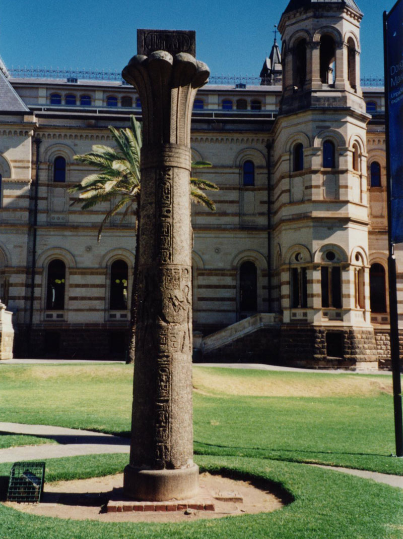 Column of the great temple of Herishaf from Herakleopolis Magna, time of Ramses II - now on display at South Australian Museum, Adelaide - The Egyptian column where it once stood in front of the South Australian Museum. It was relocated inside when the museum was expanded.In the background of this photo can be seen the part of the museum in which the small collection of ancient Egyptian antiquities are housed.